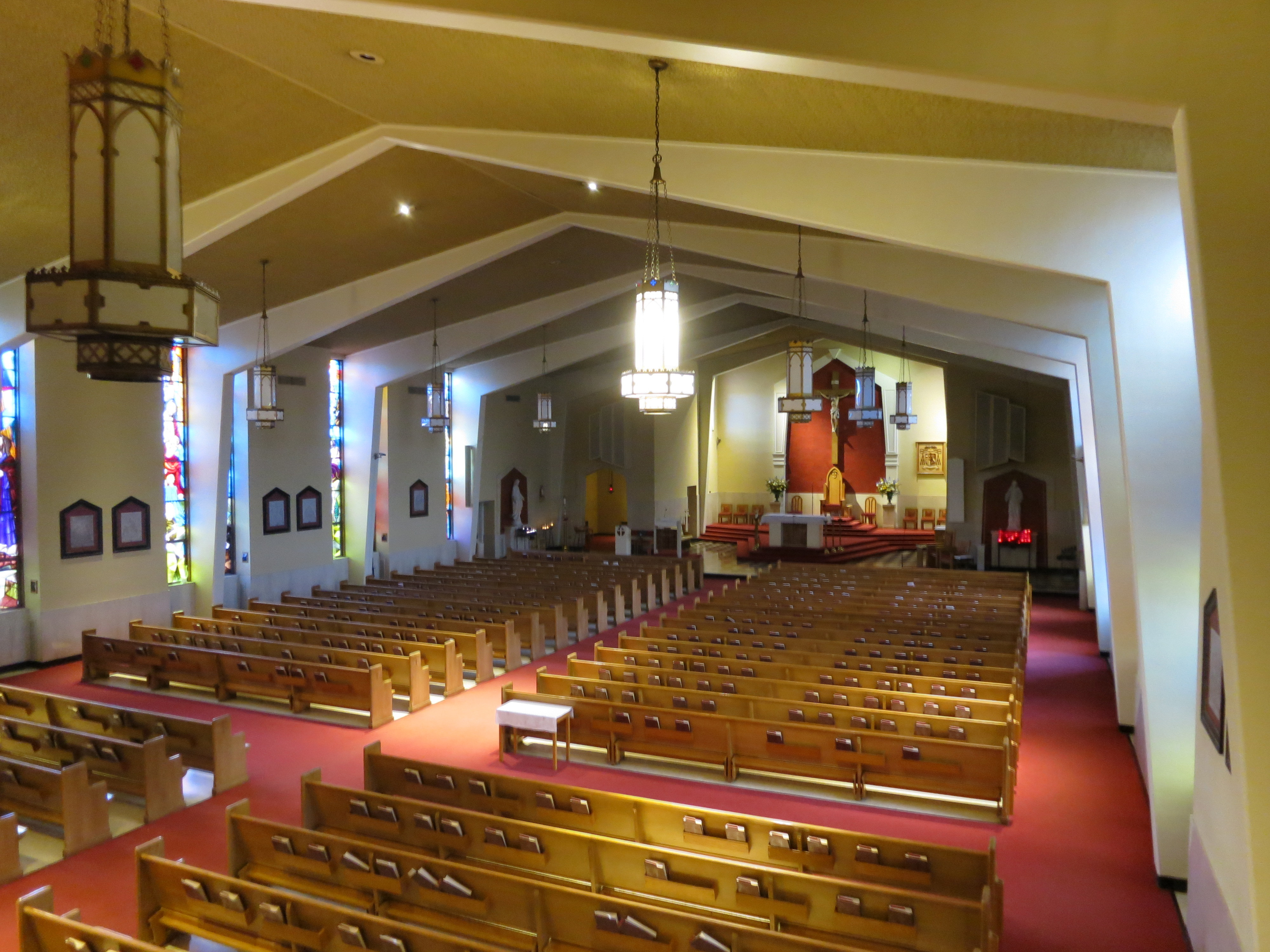 Sacred Heart Cathedral (Knoxville, Tennessee) - nave, view from the loft 2